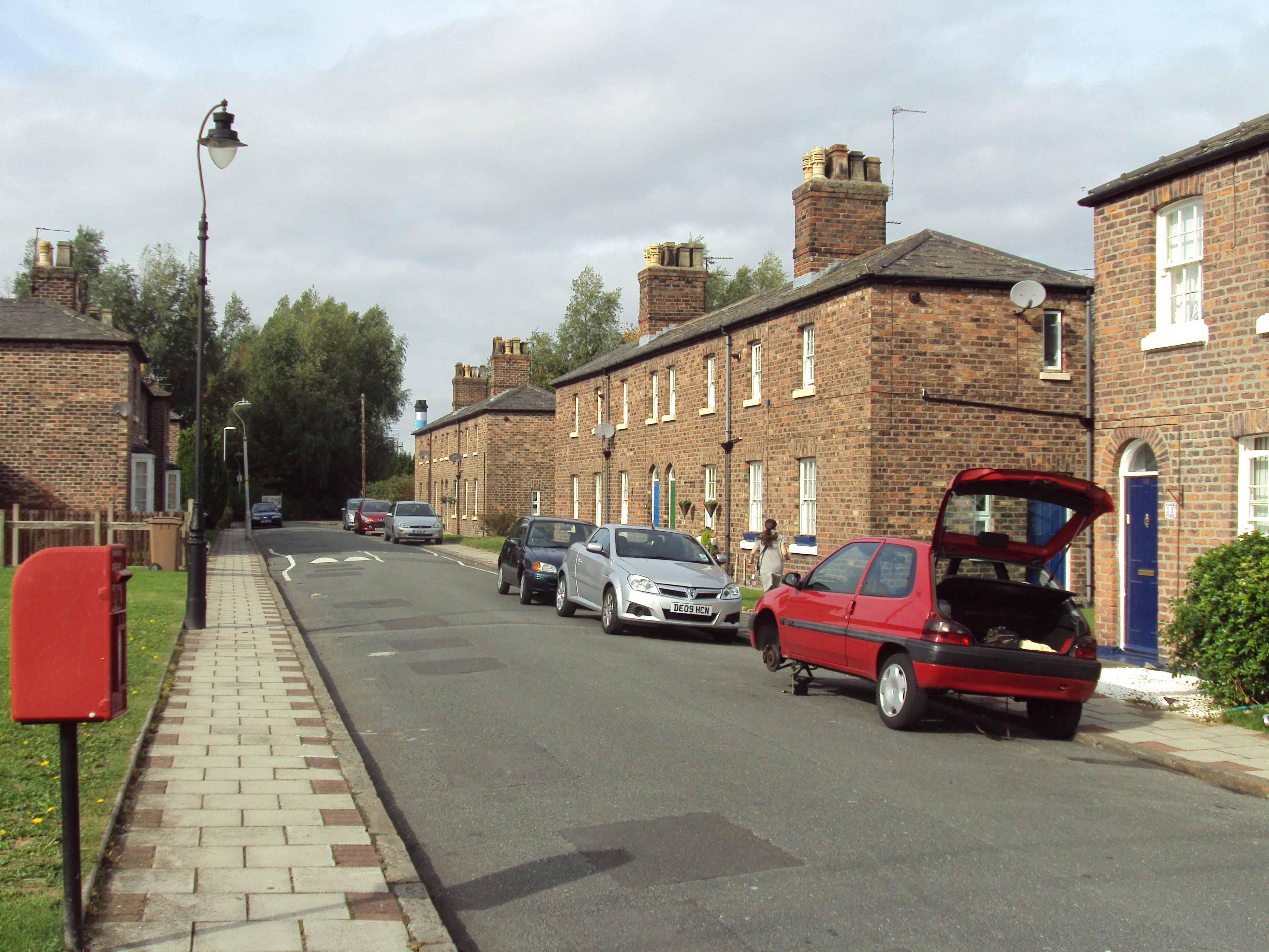 Manor Drive, Bromborough Pool Village, Wirral, Merseyside, England.